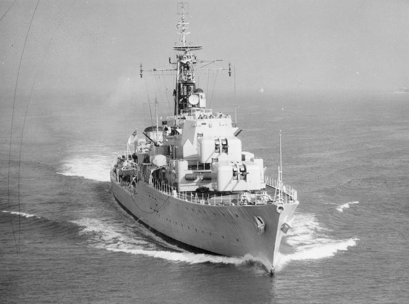 Aft view of Daring-class destroyer HMS Dainty (D108), 22 October 1964 (IWM HU 129785)